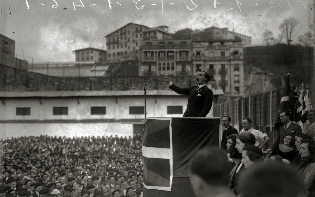 Jose Antonio Agirre Lekube's speech during Aberri Eguna, Day of the Basque Homeland, 1933. in Maitea Jai-Alai, Donostia / San Sebastian. Gipuzkoa, Basque Country.